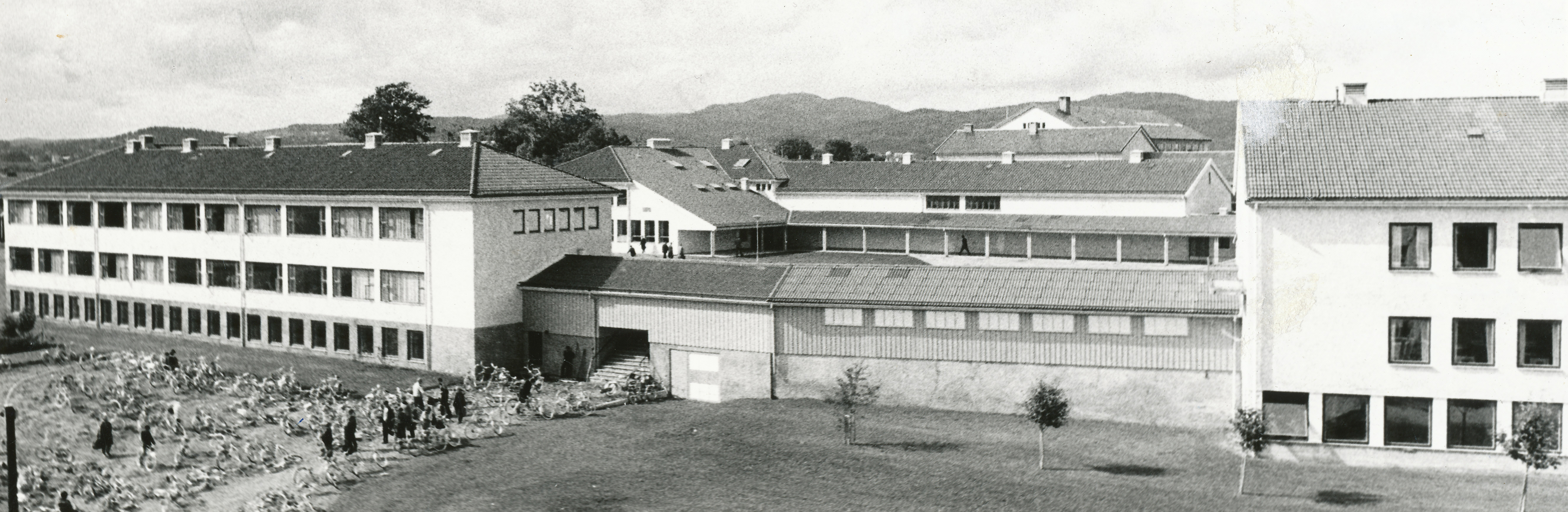 Format: Fotopositiv Dato / Date: 1965 Fotograf / Photographer: Ukjent Sted / Place: Sigurd Jorsalfars veg 19, Trondheim Eier / Owner Institution: Trondheim byarkiv, The Municipal Archives of Trondheim Arkivreferanse / Archive reference: Tor.H40.B19.F1333 [T0477]